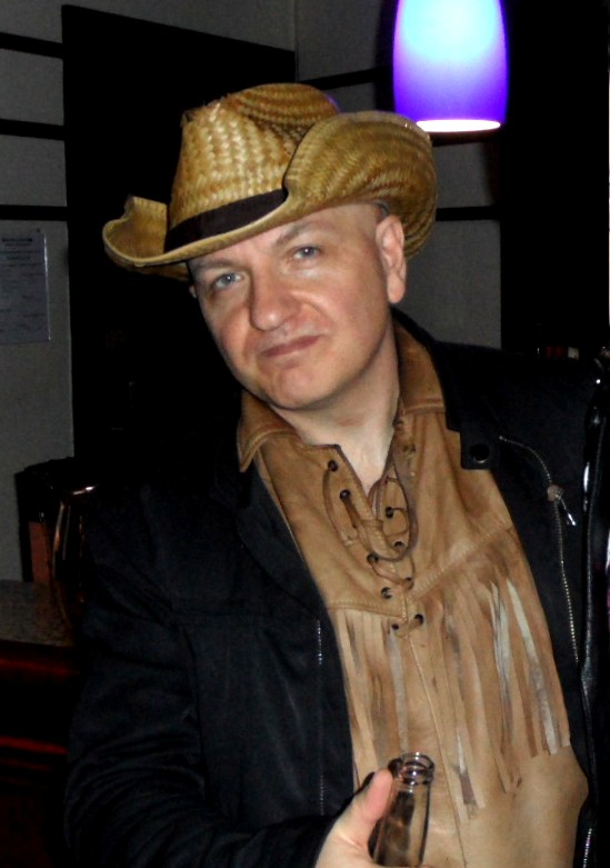 Leigh Gorman pictured after performing at the Mayne Stage in Chicago on 11/18/2012